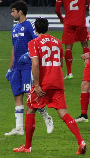 Emre Can and Diego Costa in the Chelsea-Liverpool semi-final of the 2014-15 League Cup.